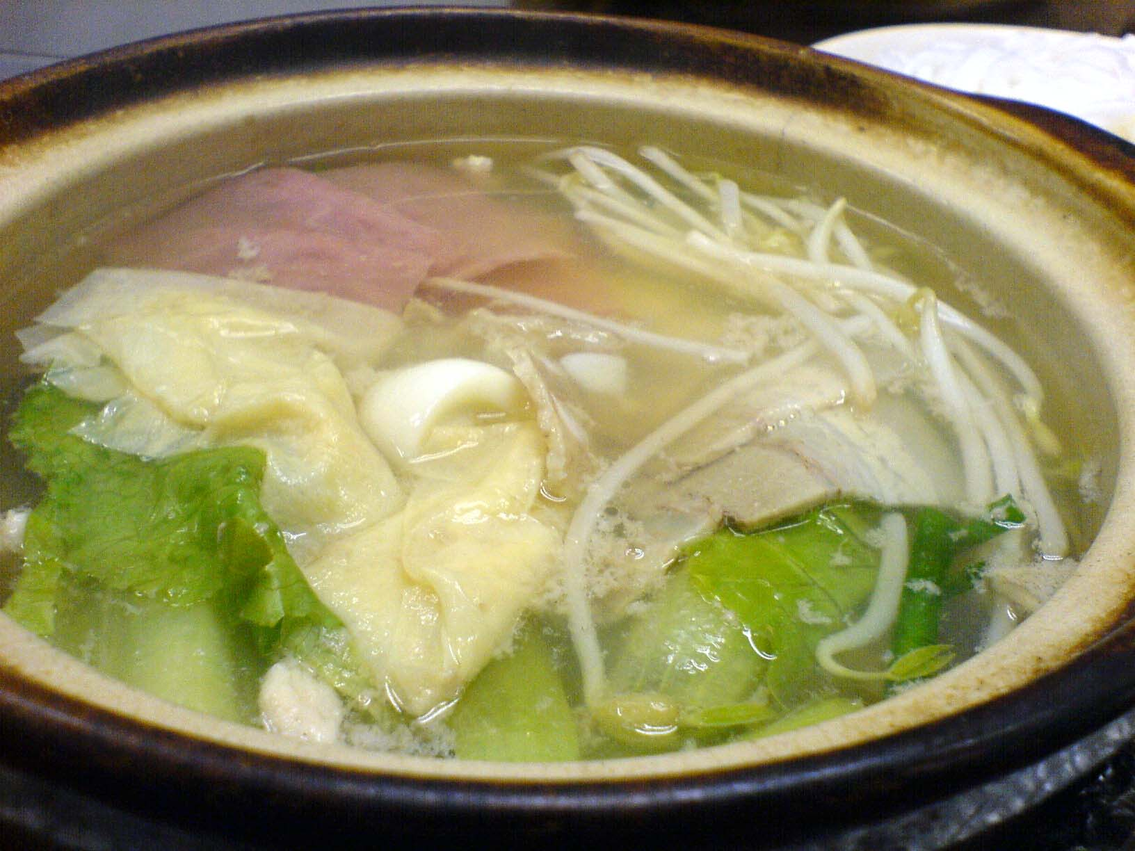 "Guo-Qiao-Mi-Xian", Crossing the bridge noodles. 剛放輔料的過橋米線